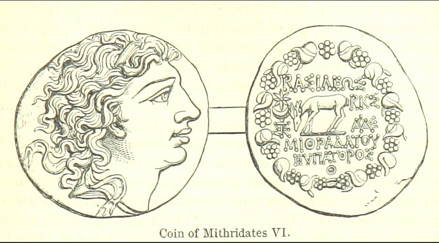 Image taken from page 605 of H. G. Liddell, A History of Rome from the earliest times to the establishment of the Empire (1857), p. 605 [BL Identifier: 002163529] obverse: Head of Mithradates VI. reverse ΒΑΣΙΛΕΩΣ ΜΙΘΡΑΔΑΤΟΥ ΕΥΠΑΤΟΡΟΣ Stag feeding; in field, crescent and star, and Monogram of Pergamum, where the coin was struck when Mithradates was resident there; whole in ivy-wreath